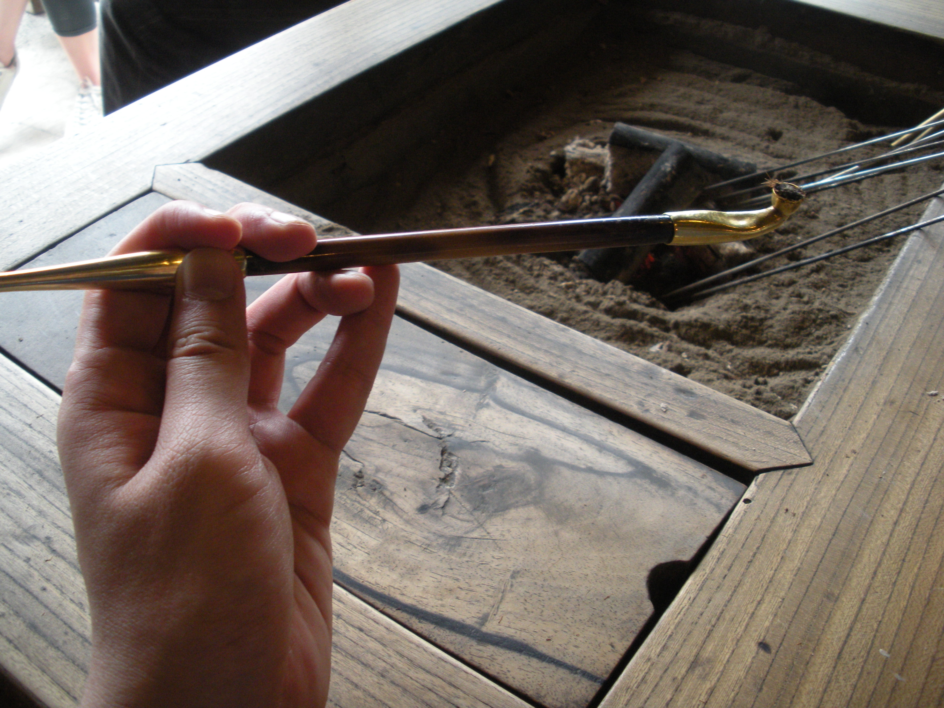 Kiseru (Japanese smoking pipe)